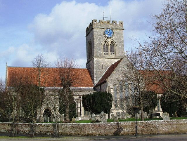 Church of St Peter and St Paul - Ringwood. This church is the main church in Ringwood, and is positioned at the end of the High Street. It was rebuilt during the 19th Century.